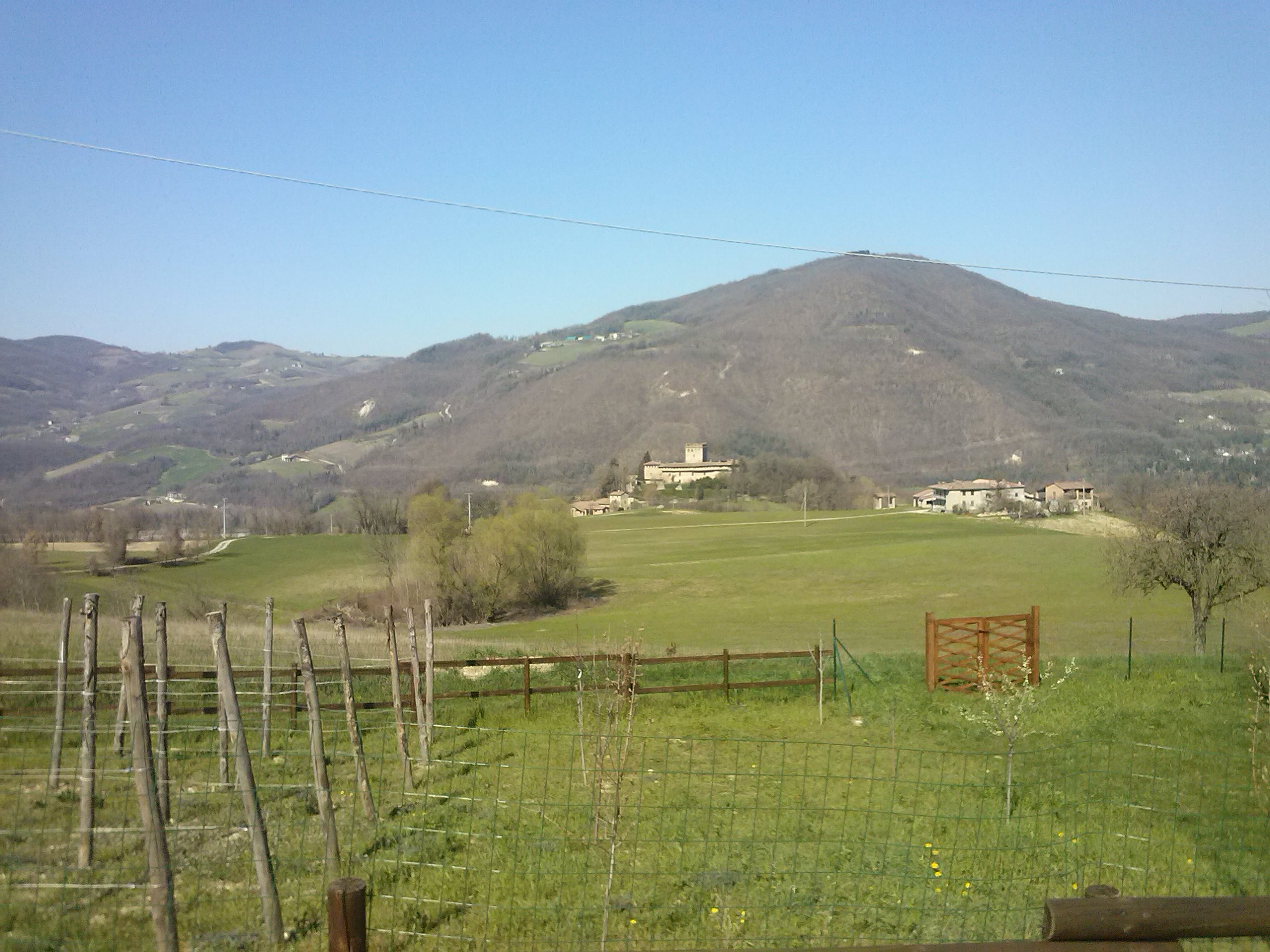 Castle of Montechiaro, municipality of Rivergaro (Piacenza, Italy)